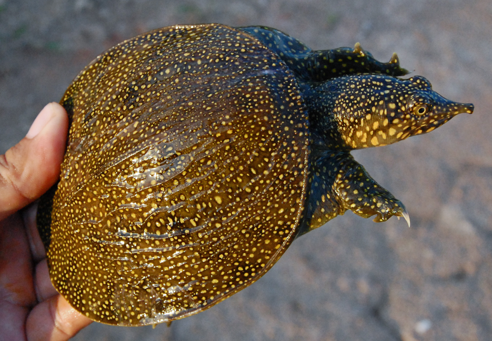 Amyda cartilaginea, light-colored juvenile, from Mentaya Hulu, Central Kalimantan, Indonesia.